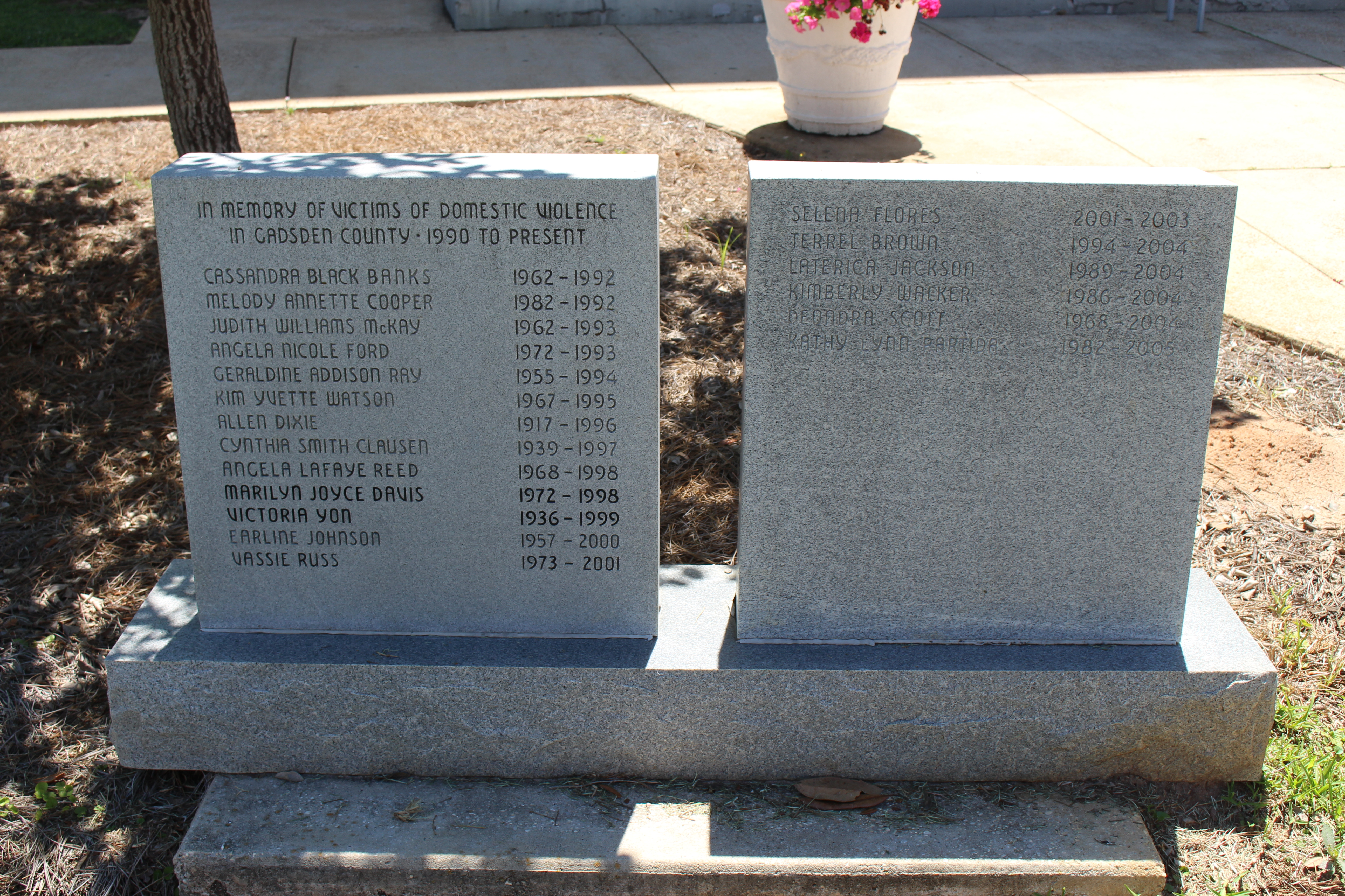 Quincy, Gadsden County, Florida